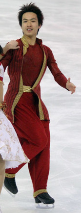 2010 World Junior Figure Skating Championships - Olivia Nicole Martins and Alvin Chau